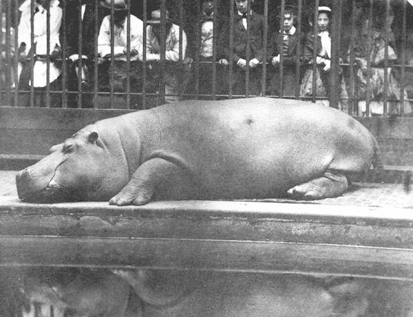 Crowds look on as Obaysch rests in the London Zoo in this 1852 photograph taken by Juan, Count of Montizón. Original description: Obaysch, London Zoo's first hippopotamus, 1852. Printed in Edwards J. London Zoo from Old Photographs, 1852-1914, 1996.